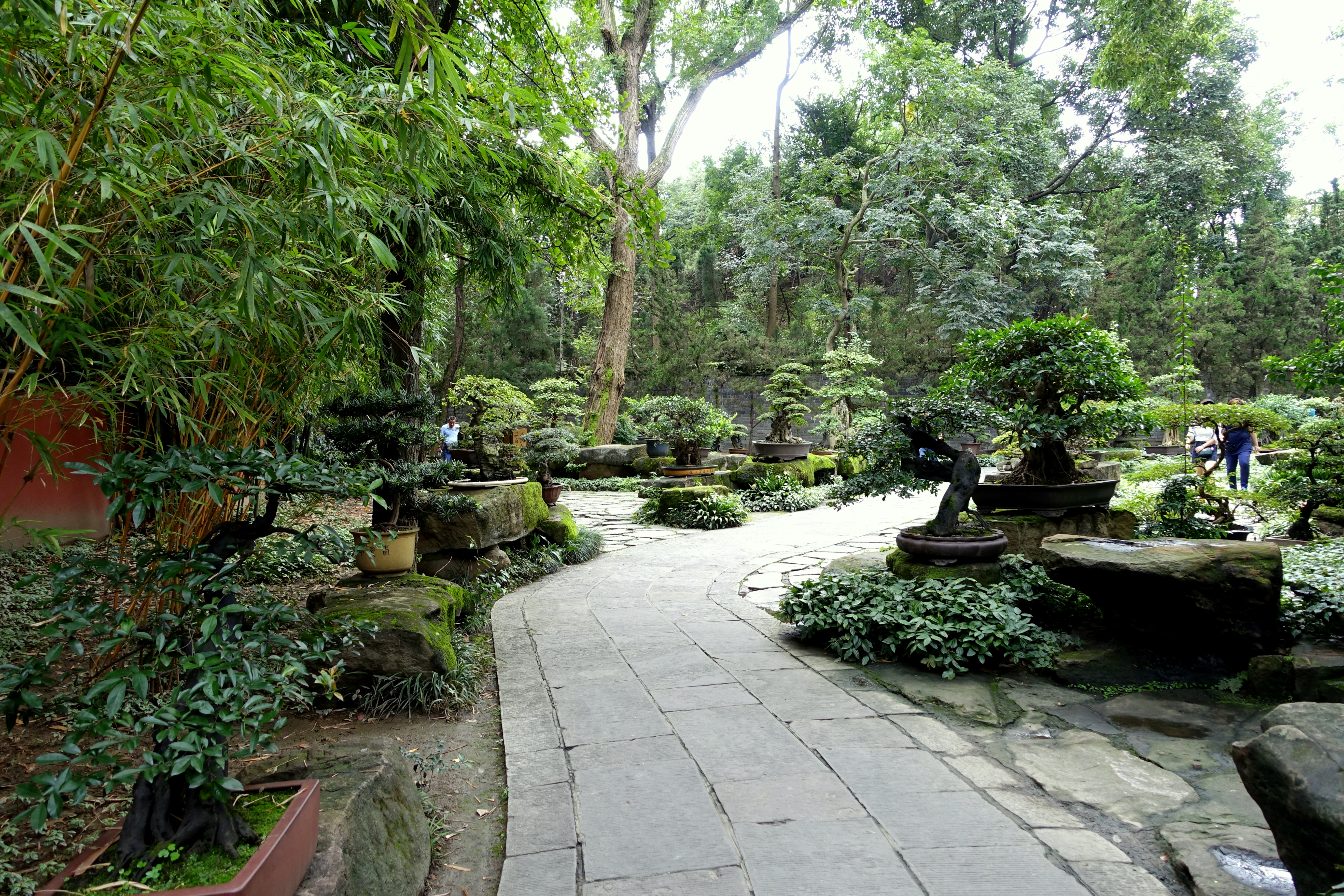 Garden scene in the Wuhou Shrine (Temple of Marquis Wu, 成都武侯祠博物馆) - Chengdu, Sichuan, China.